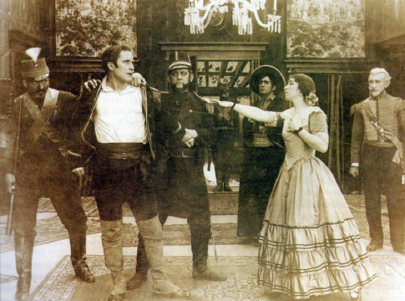 In good faith, I believe this is an image from the 1914 movie Captain Alvarez. (Please correct if wrong!)